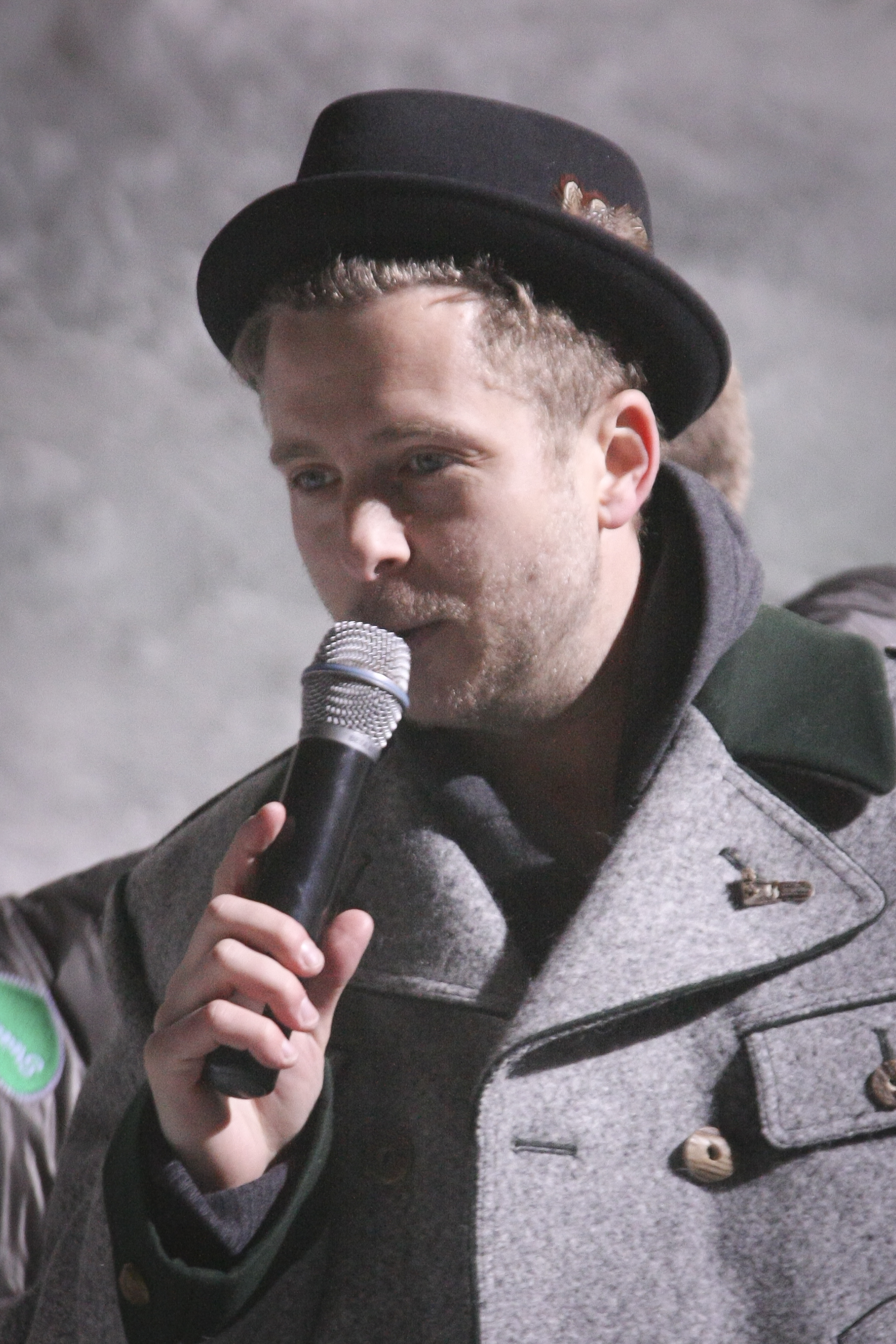 Ryan Tedder in Schladming, Austria